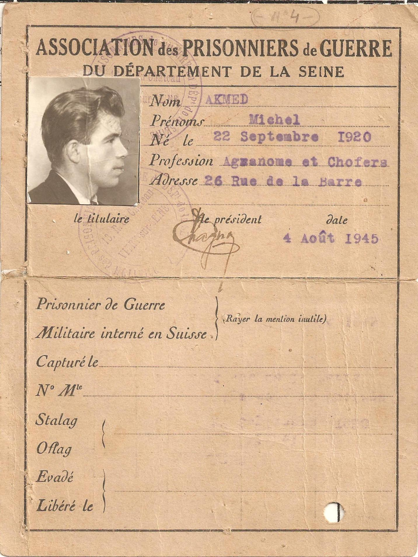 French ID card of a former prisoner of war issued by Association des prisonniers de guerre to Akmed Michel (assumed Ahmediyya Jabrayilov)